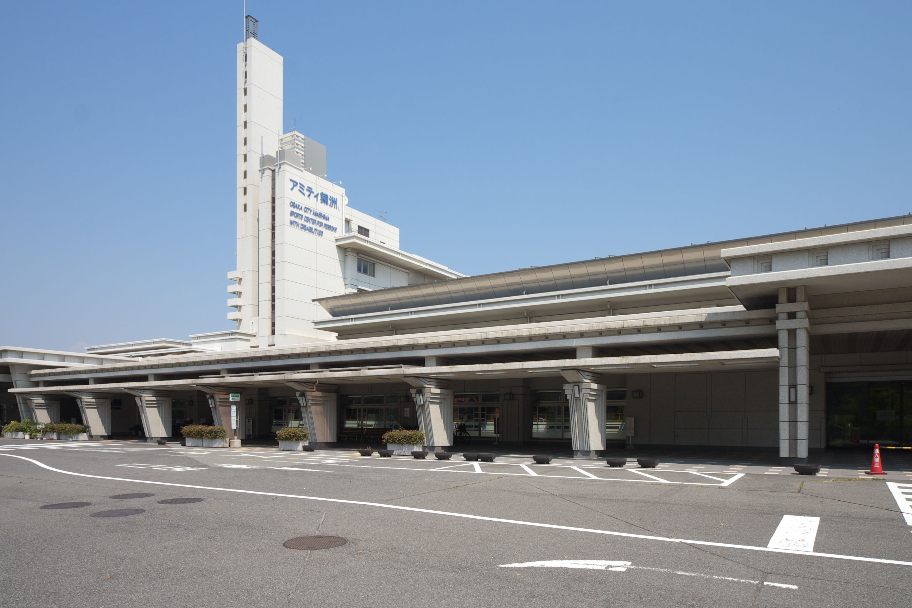 アミティ大阪（大阪市舞洲障害者スポーツセンター）（大阪市, 日本） / Amity Osaka (Osaka City Maishima Sports center for persons with disabilities) Osaka City